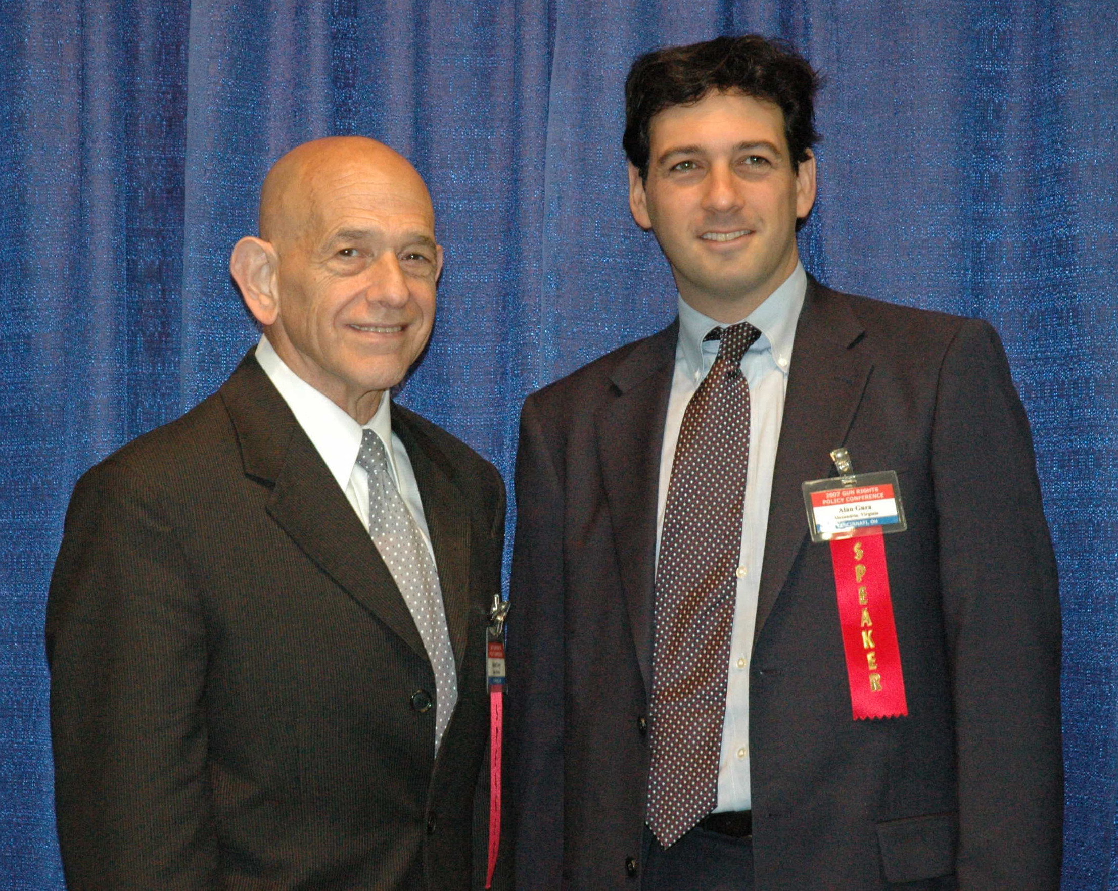 Parker v. D.C. attorneys Bob Levy (left) and Alan Gura (right).